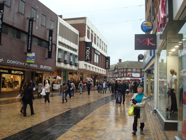 High Street, Bromley, Kent